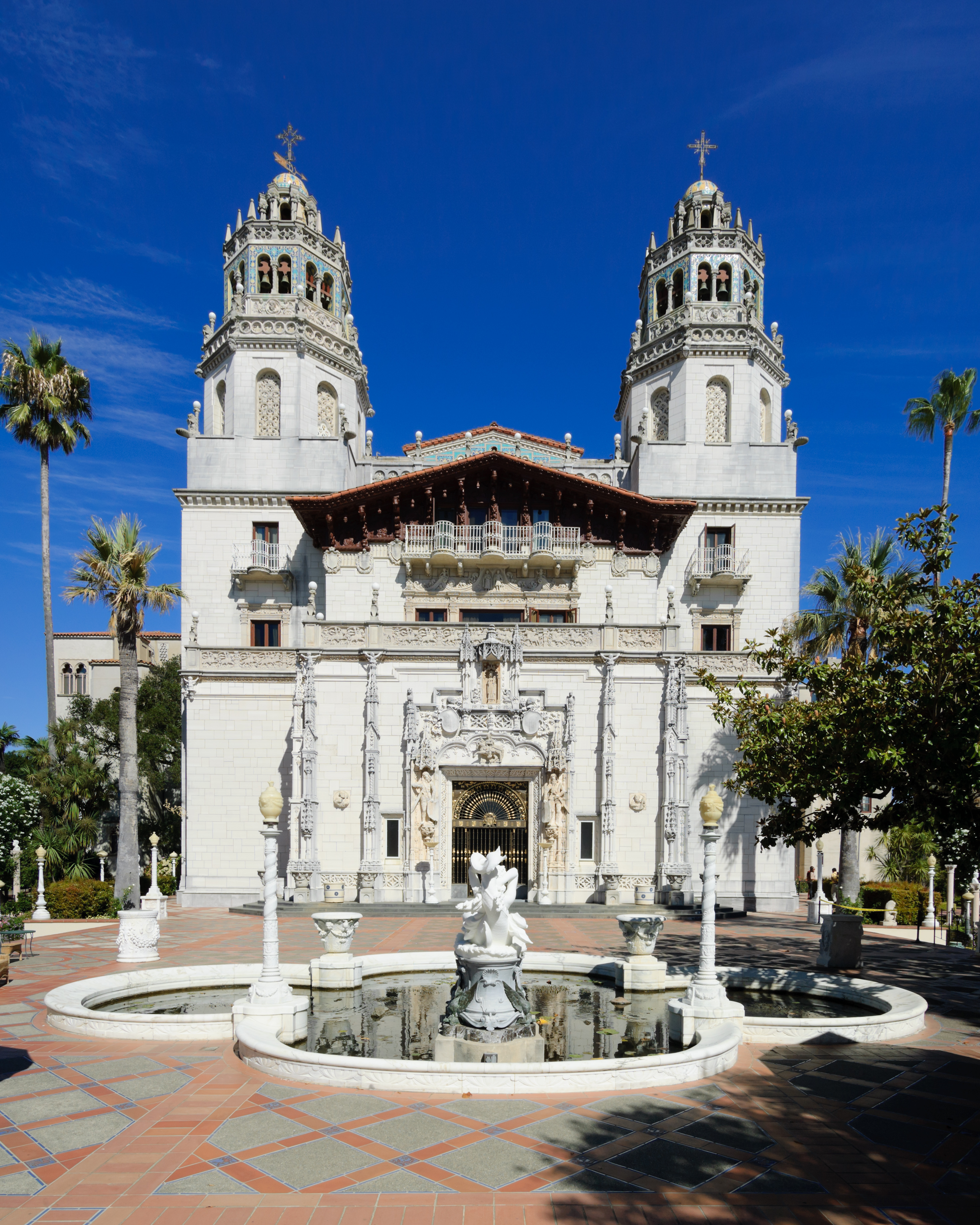 Casa Grande in Hearst Castle. Stitched from three horizontal images top-to-bottom.